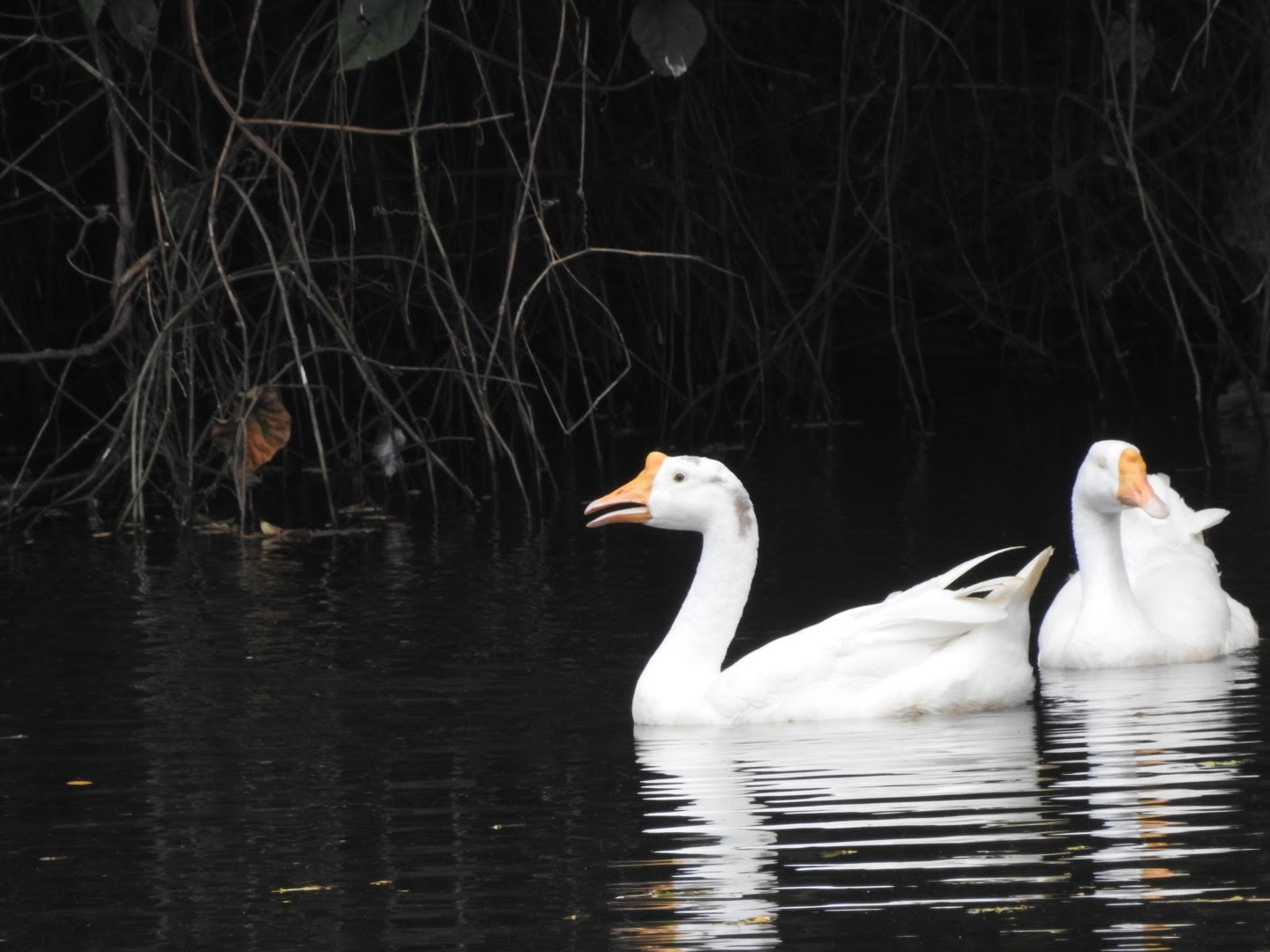 Domestic geese swimming.